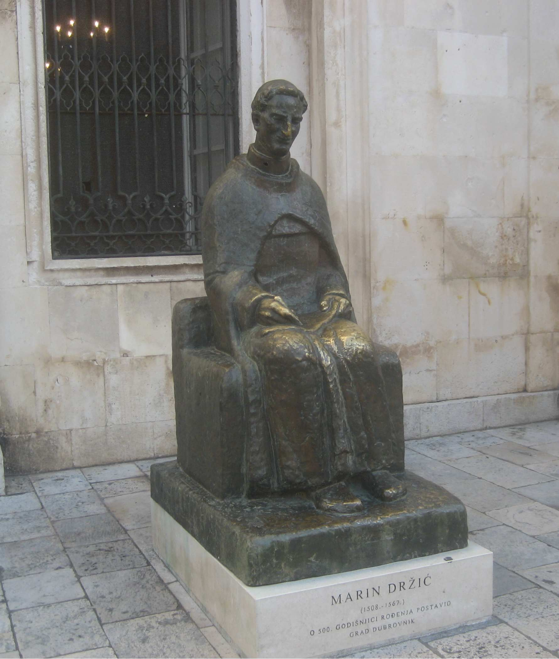 Marin Drzic, Dubrovnik